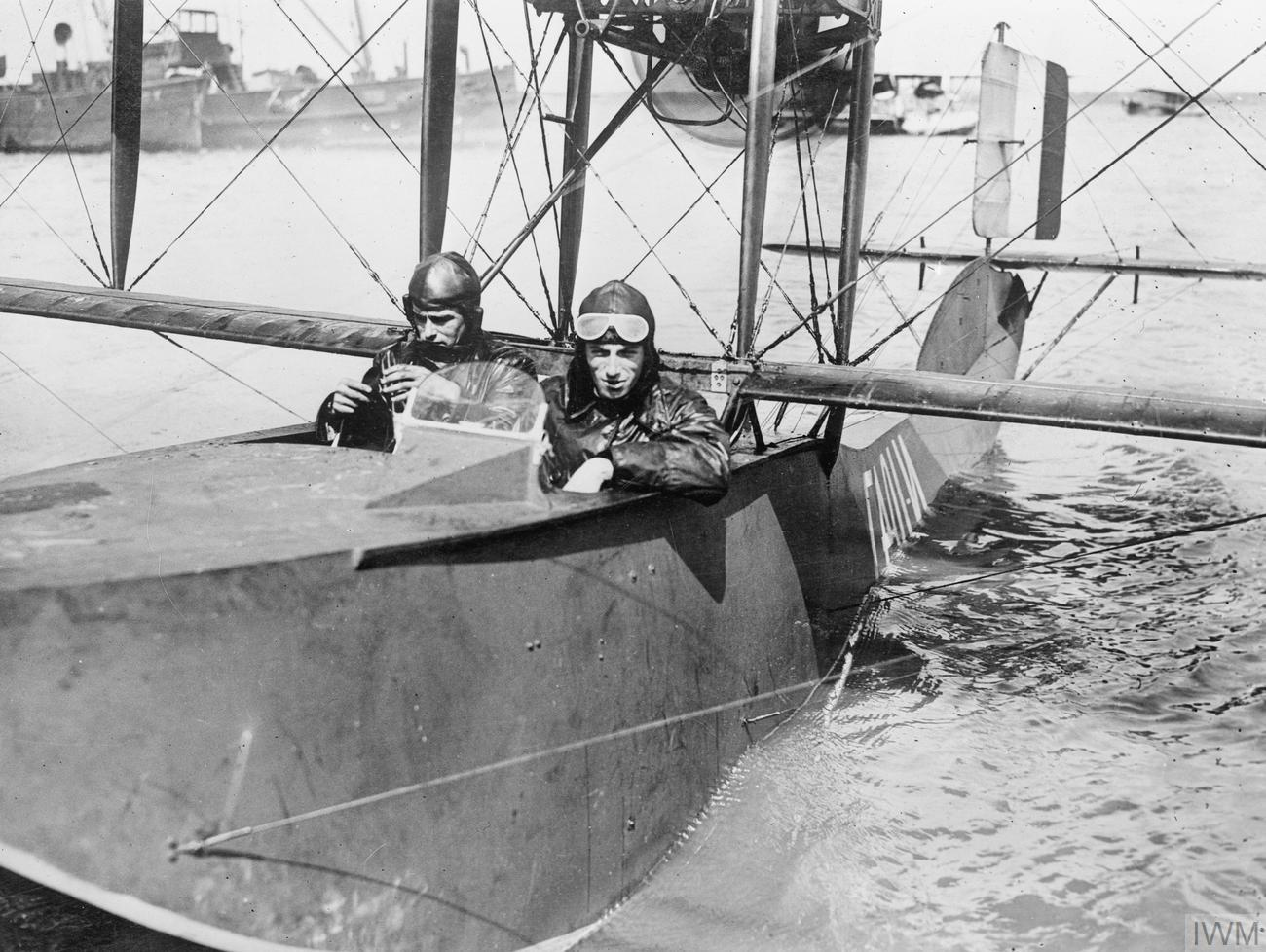 Ministry of Information First World War Miscellaneous Collection